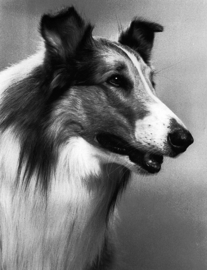 Photo of television star Lassie from the program of the same name.